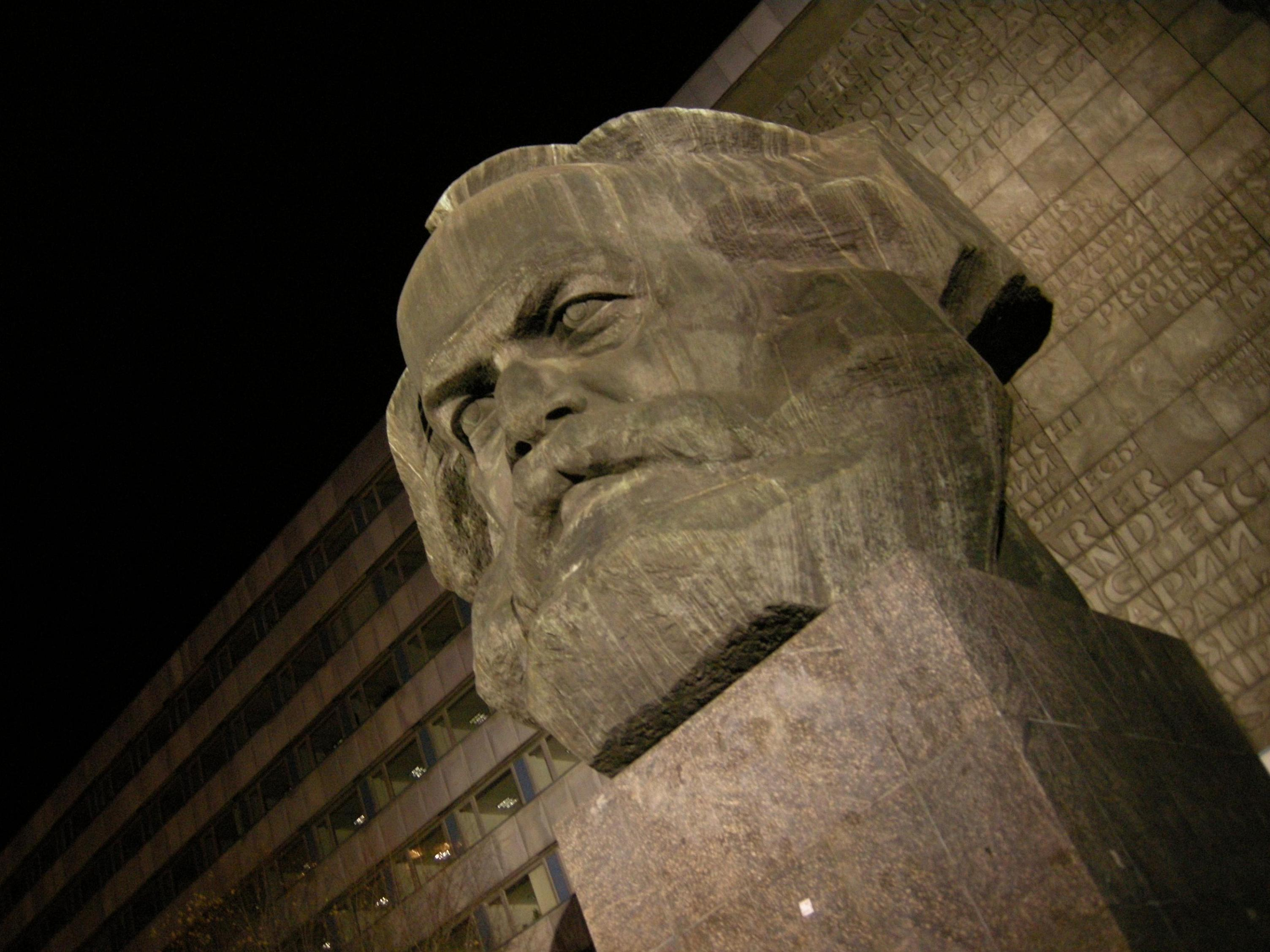 This famous 7.1m bust of philosopher Karl Marx, hewn from Ukranian granite, is Chimnitz's most famous landmark.